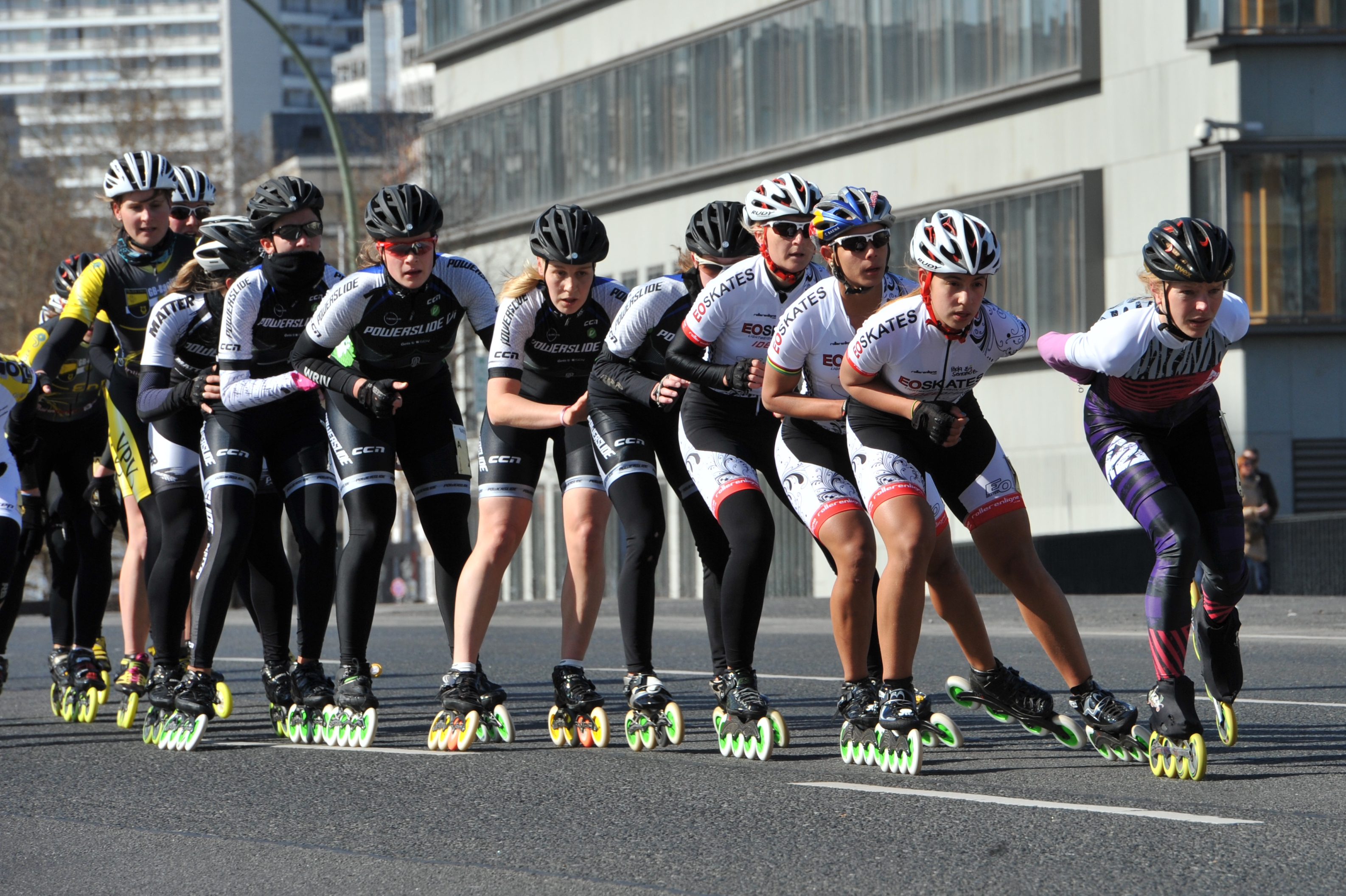 The making of this work was supported by Wikimedia Austria. For other files made with the support of Wikimedia Austria, please see the category Supported by Wikimedia Österreich. Führungsgruppe der Damen bei km 20 im Berliner Halbmarathon 2012 (Simone Kohls, Paola Seranno, Cecilia Baena Guyader, Jana Gegner etc.)